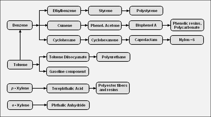 Diagram of the petrochemicals derived from Benzene, Toluene and Xylenes (as a group, referred to as BTX)